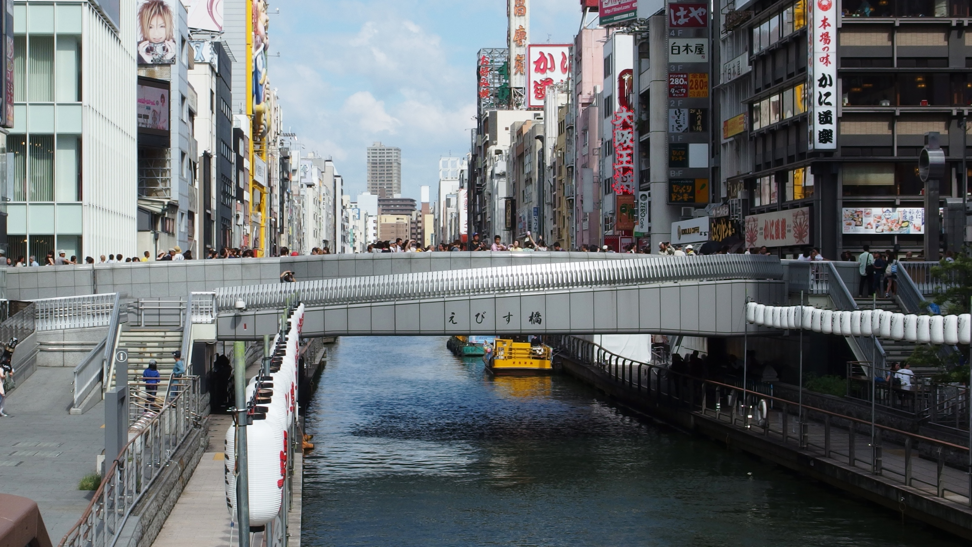 Ebisubashi Bridge, Osaka, Osaka Prefecture, Japan